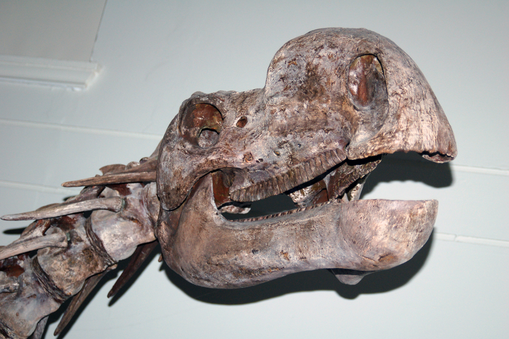 Photo: mounted skull of a Muttaburrasaurus langdoni at the Australian Museum, Sydney.